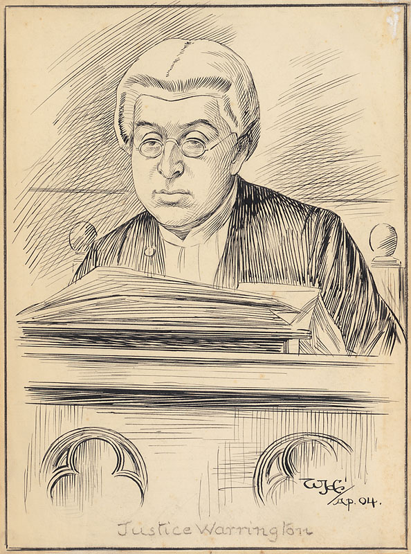 Thomas Rolls Warrington, 1st Baron Warrington of Clyffe (1859-1934)